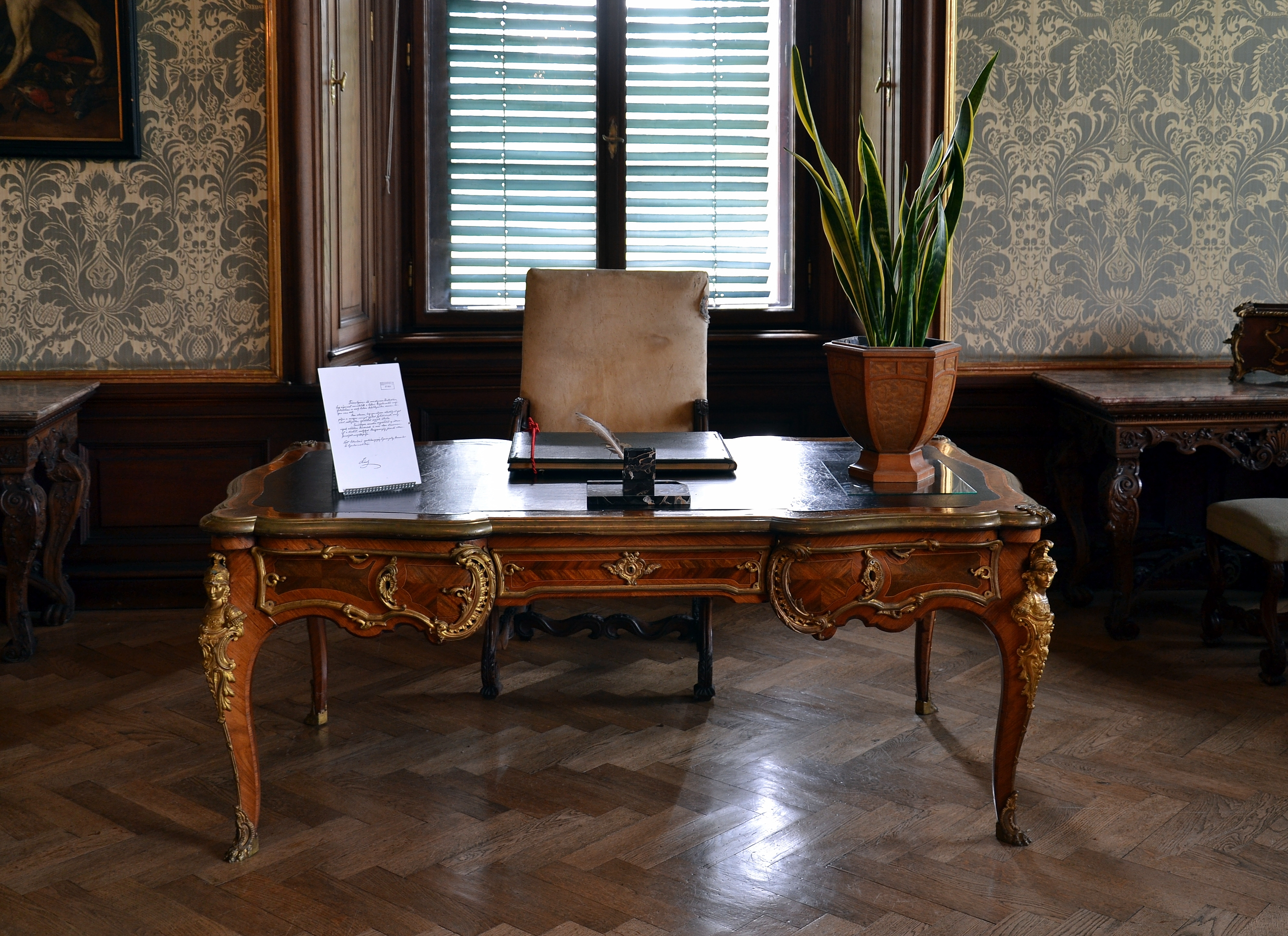 Castle Eckartsau, Austria. It was here in 1918 under Emperor Karl I that the imperial family spent its last Christmas and its last days on Austrian soil.